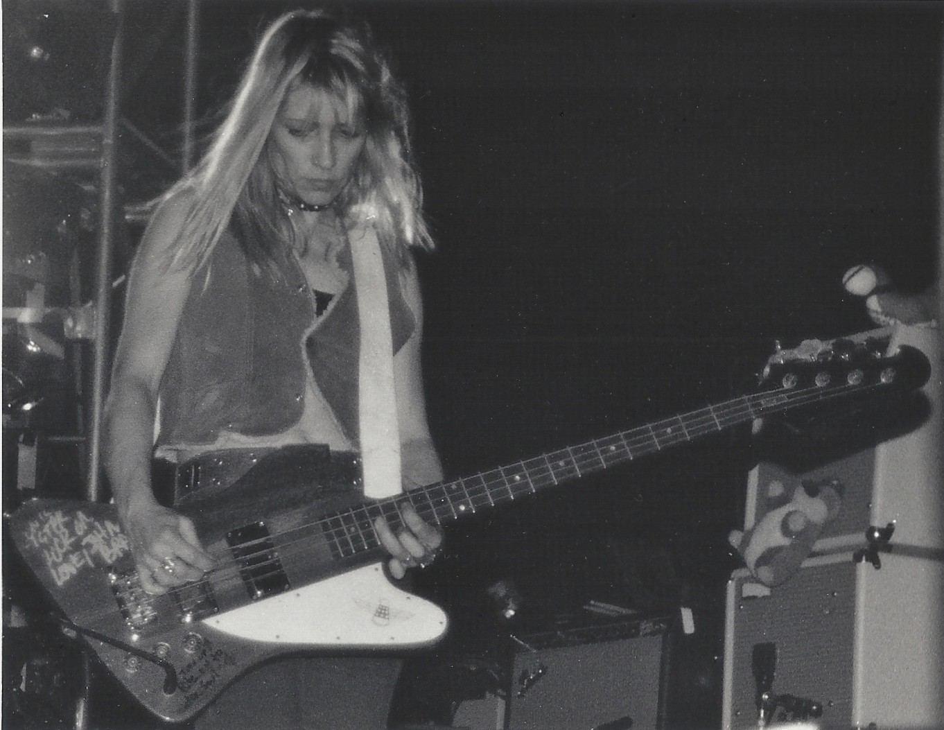 Sonic Youth, Town & Country Club, Leeds, 1992 Early 90s American bands across England. Neate photos facebook page. More neate photos.